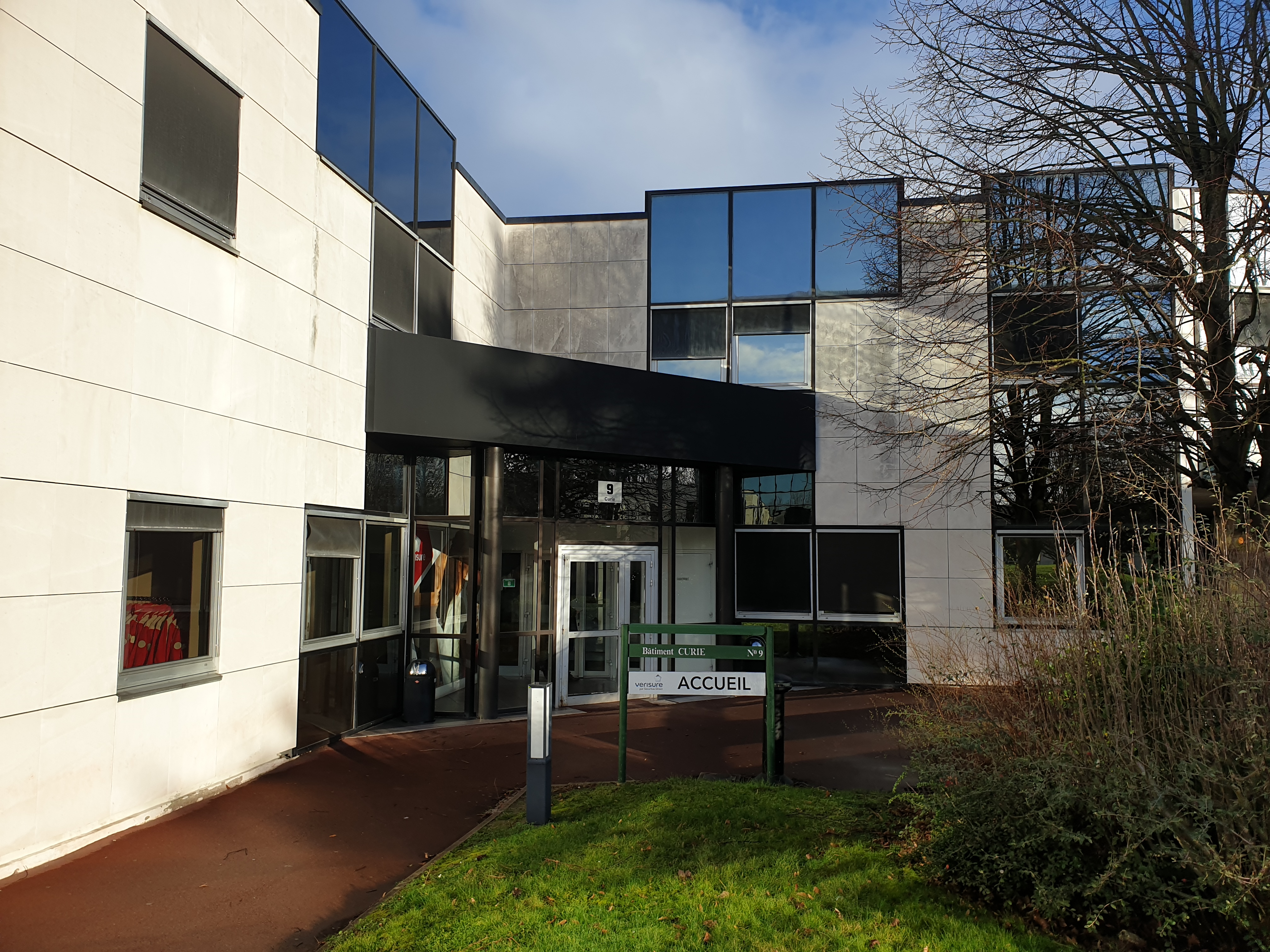 Verisure Curie building at Châtenay-Malabry - 2020-02-11.